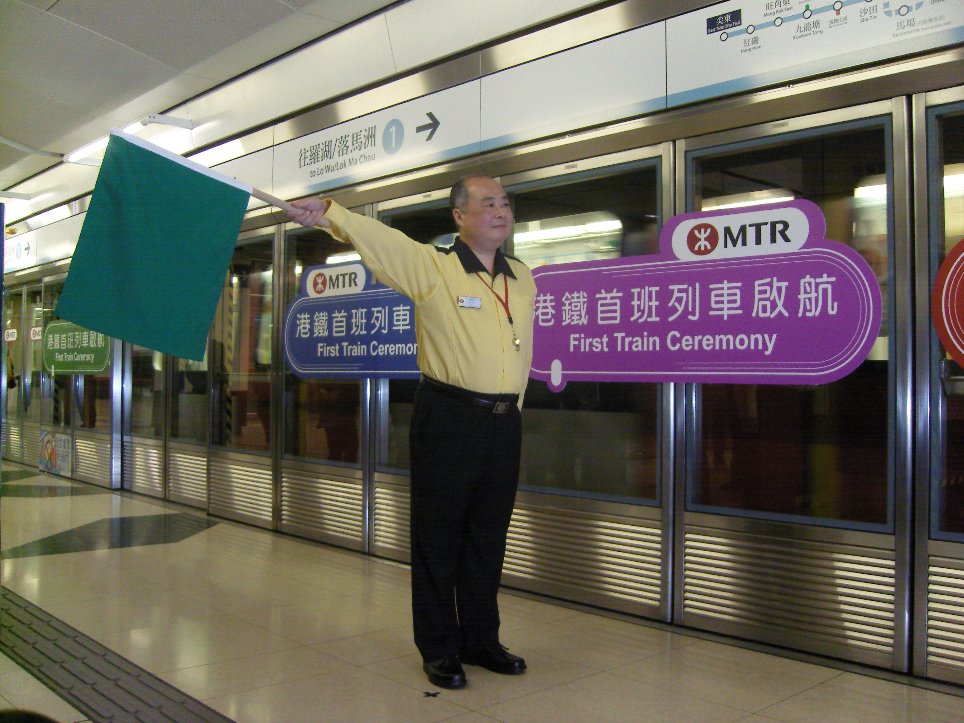 Merger of KCR and MTR operations, Hong Kong.